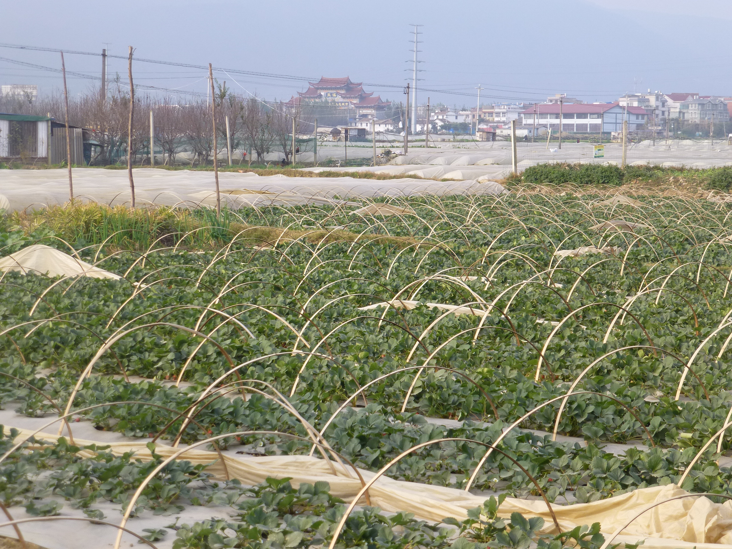 Strawberry fields in Beicheng Subdistrict, Hongta District, Yuxi, Yunnan